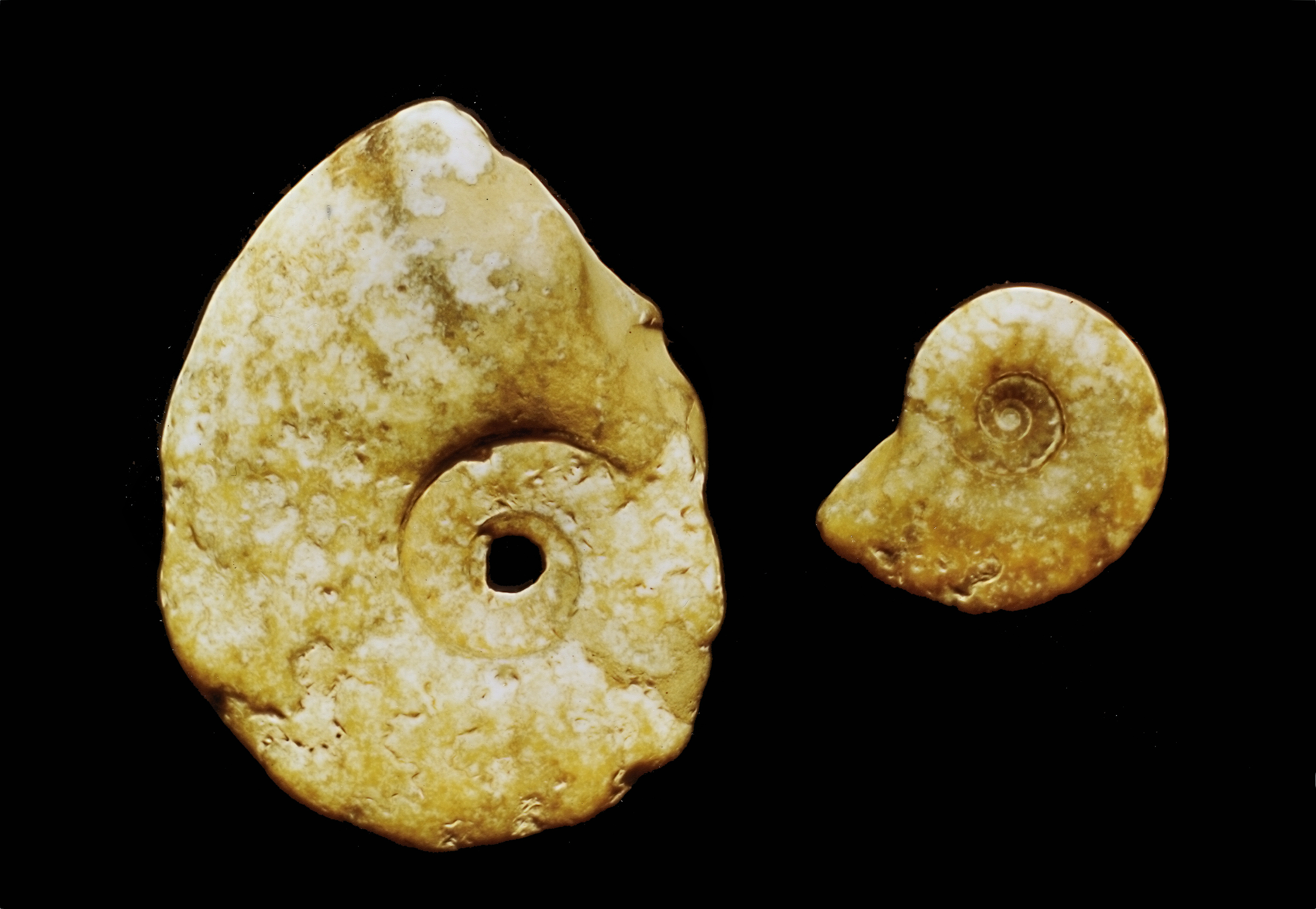 . Ammonite of the Aptian (Cretaceous, about 123 million years ago) at Atherfield Point, Isle of Wight, UK